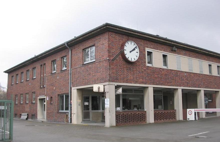 Listed outbuilding from Gillette at the Oberlandstraße (street) in Berlin-Tempelhof, built in 1936/39.